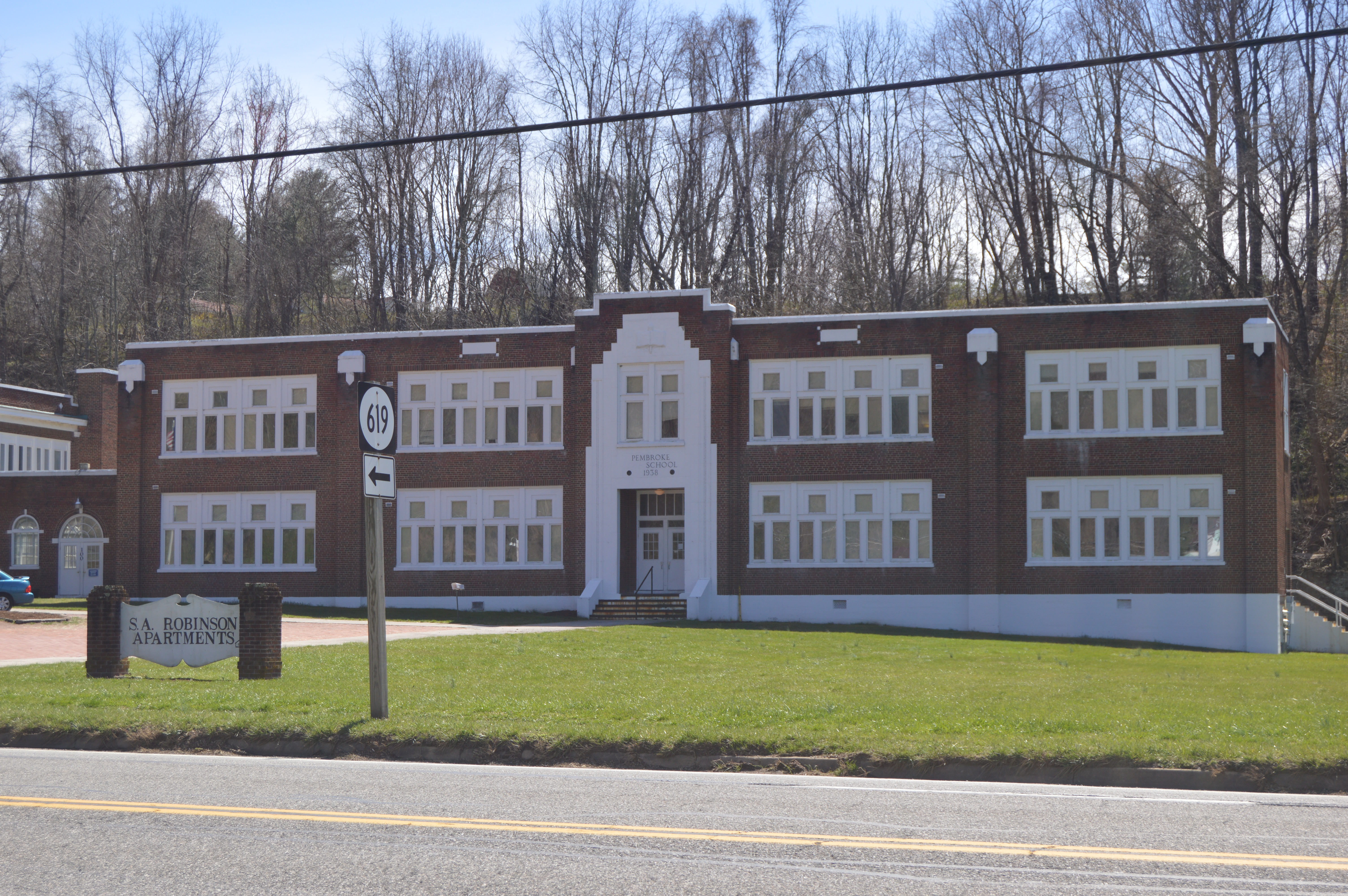 Front of the former Pembroke School, now the S.A. Robinson Apartments, located on U.S. Route 460 in eastern Pembroke, Virginia, United States. It was built in 1938.